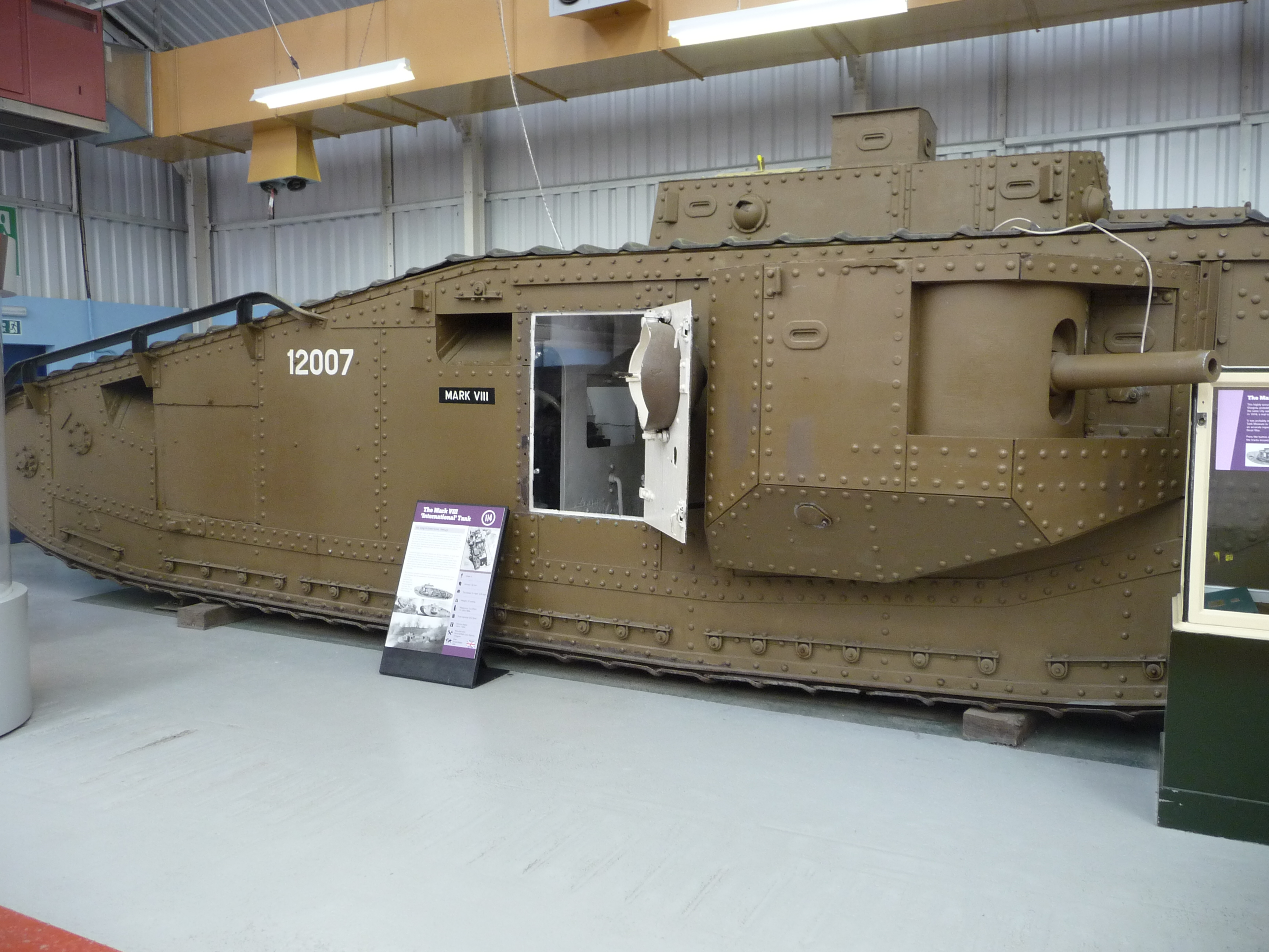 Photograph of British/American Mark VIII tank at Bovington Tank Museum, UK. See also File:Mark VIII tank Bovington Flickr 4773874967.jpg